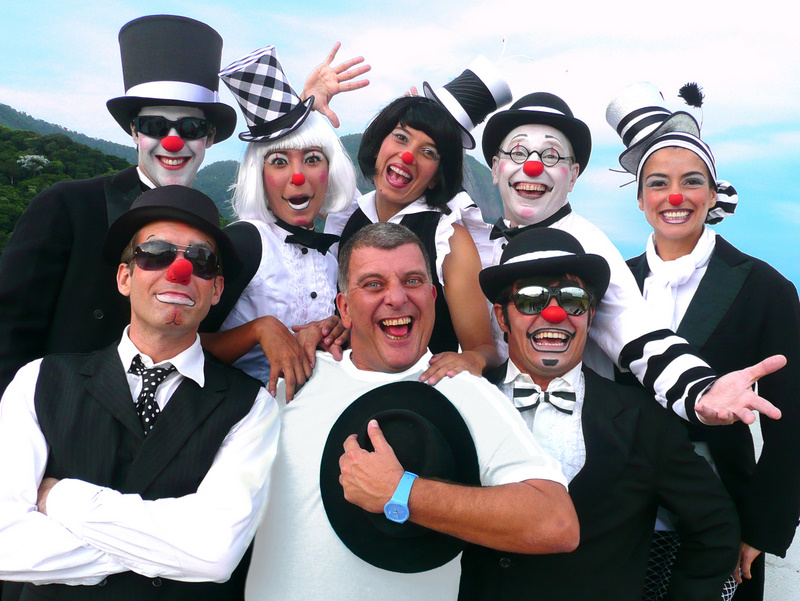 circus, theater and music - "Irmãos Brothers"